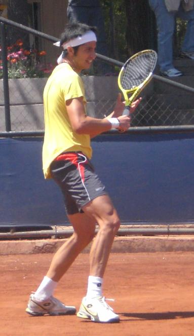 A photo of the Paul Capdeville's training.